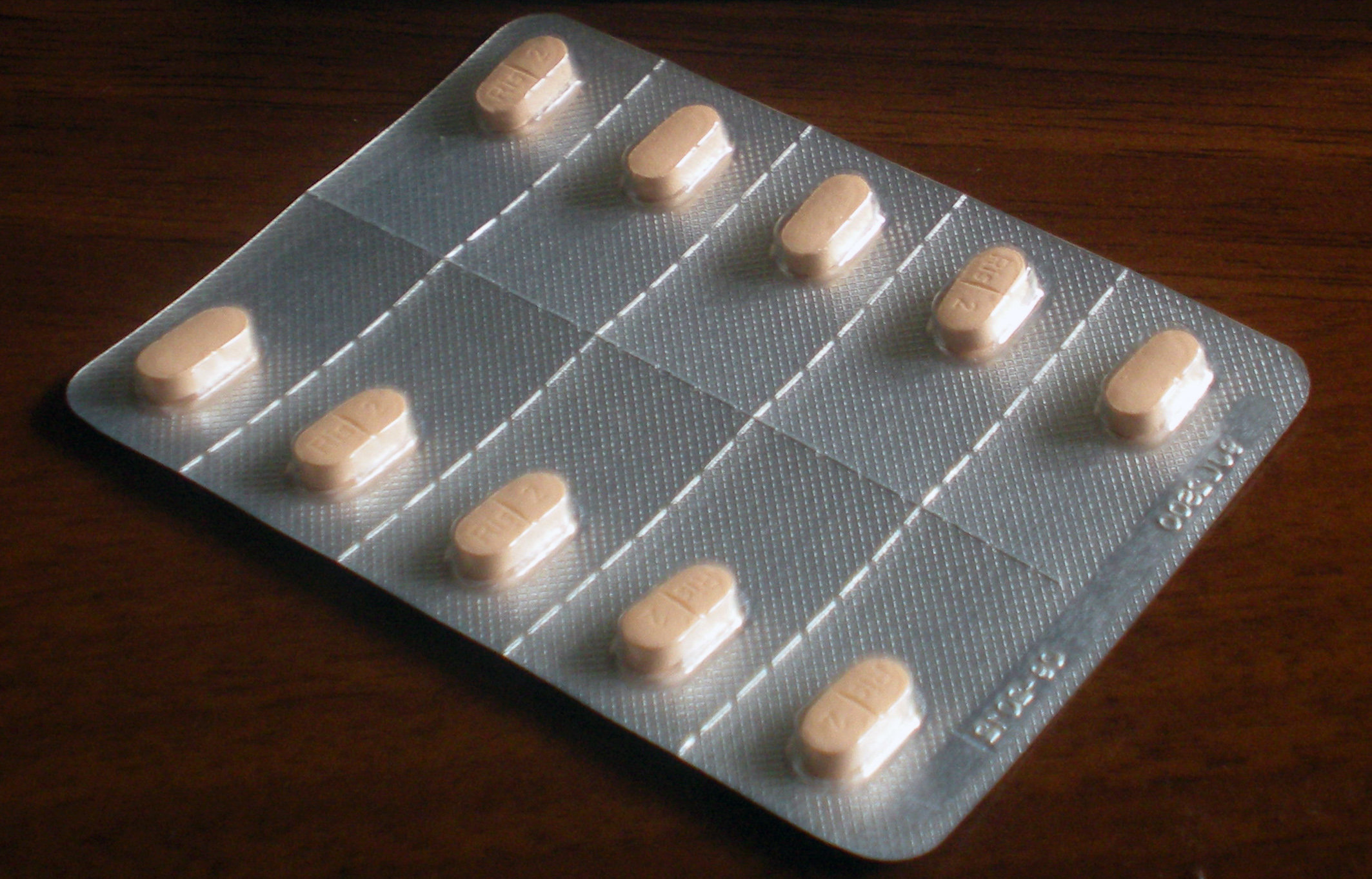 Risperidon packet of tablets on a table.